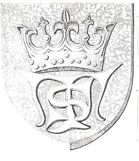 Monogram of King Thomas of Bosnia Srpskohrvatski / српскохрватски: Монограм босанског краља Томаша